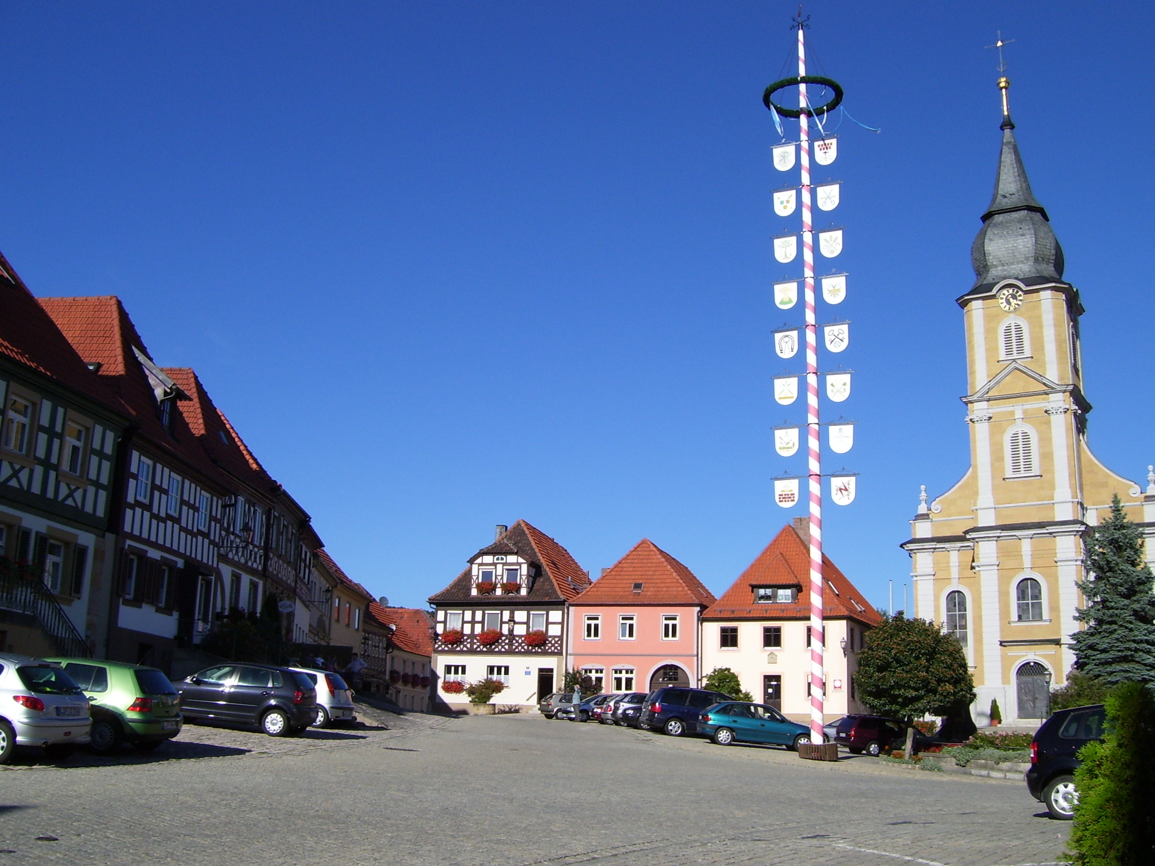 the main square in Burgkunstadt, Franconia, Germany